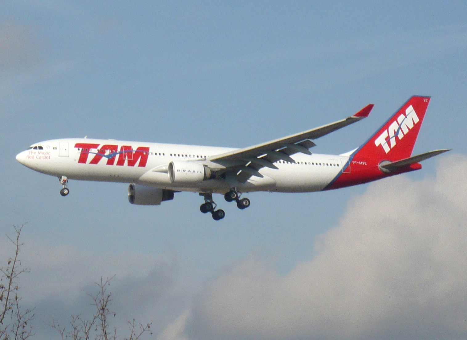 An A330 of TAM Linhas Aeras at landing in Frankfort